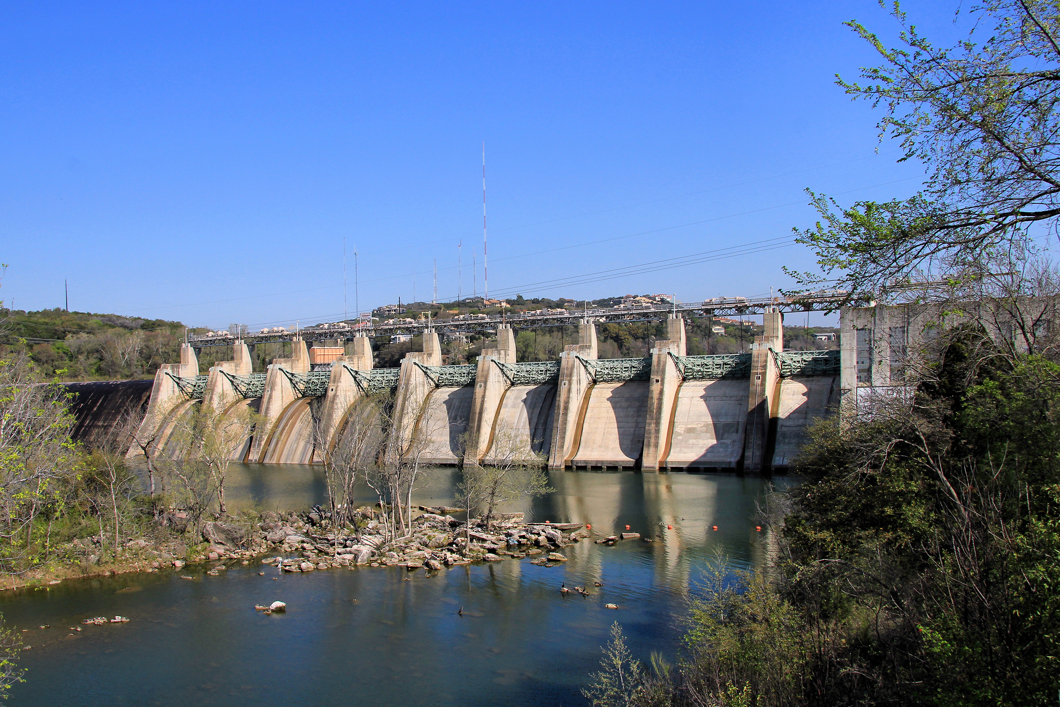 Tom Miller Dam impounds Lake Austin.The downstream side is the beginning of Lady Bird Lake. The City of Austin built the dam between 1938 and 1940 with funding help from the Public Works Administration. The Lower Colorado River Authority leases and operates the dam. The hydroelectric plant in the dam is capable of generating 17 megawatts of power.